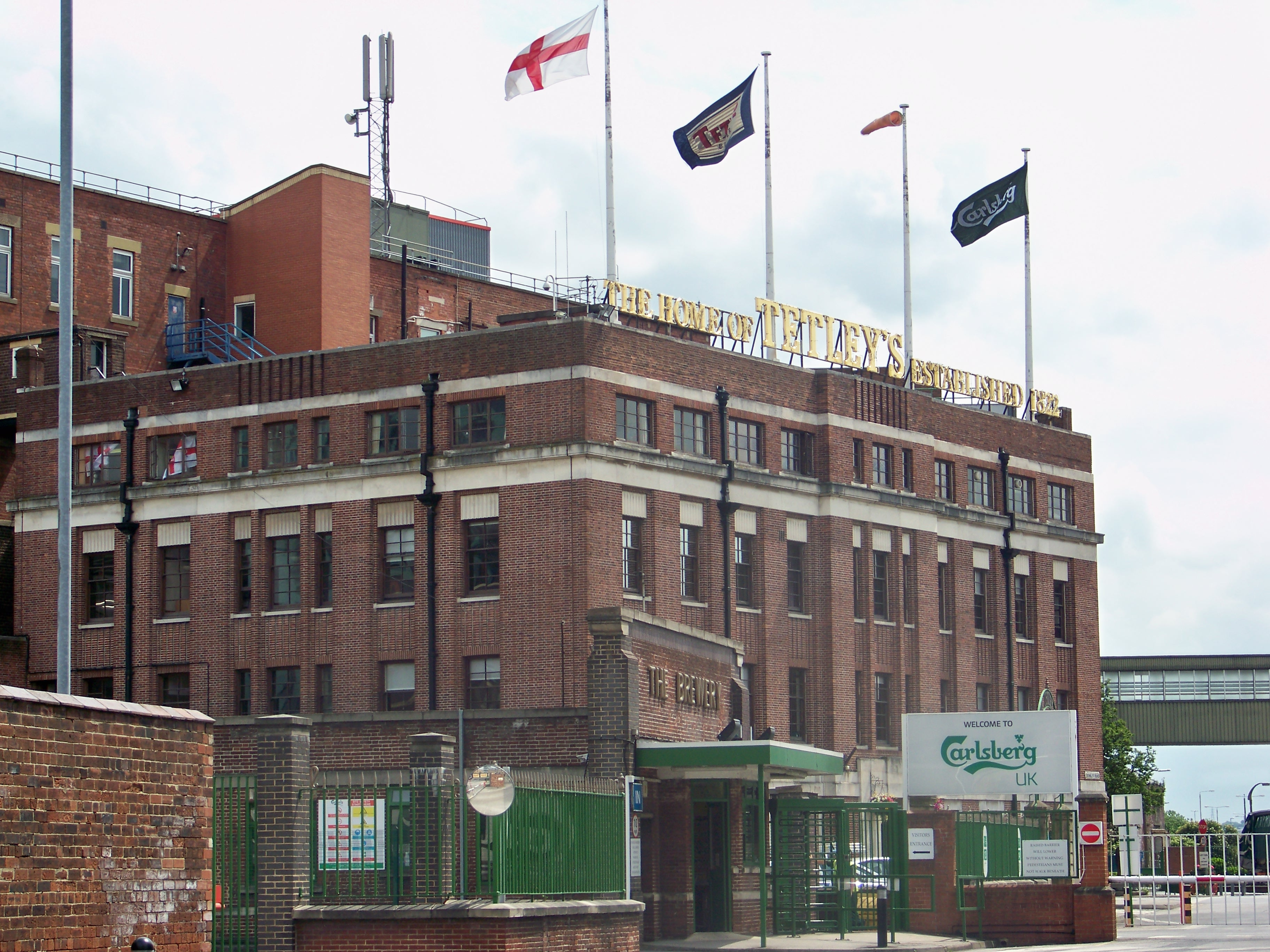 The gatehouse and entrance to the Tetley's brewery from Hunslet Road and Waterloo Street in Leeds, West Yorkshire. Four flagpoles sit atop the building (the flags displayed from left to right are the Flag of England, a flag displaying a Tetley's logo, a windsock and a flag displaying the Carlsberg logo). Taken on the afternoon of Thursday the 24th of June 2010.